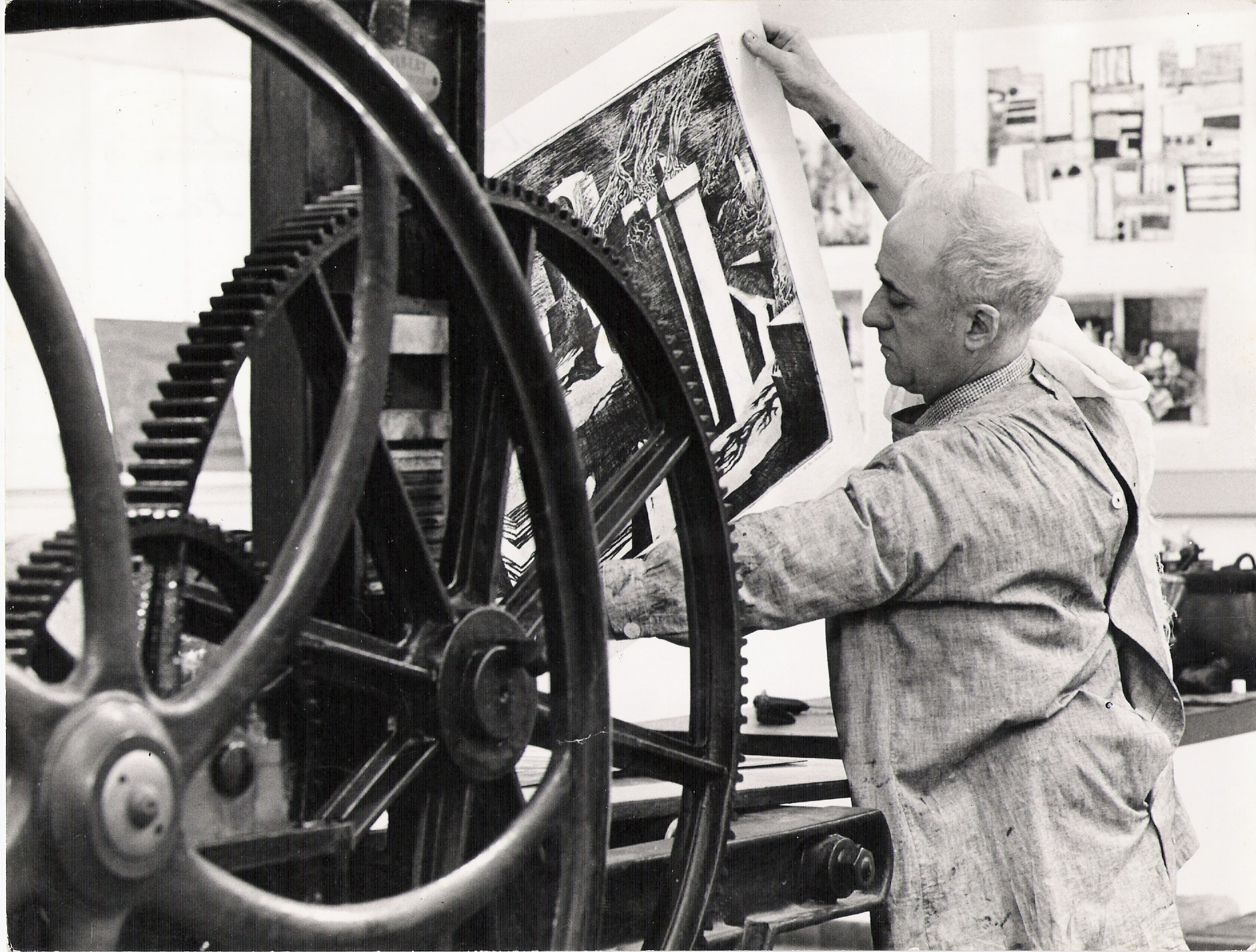 René De Coninck as artist.